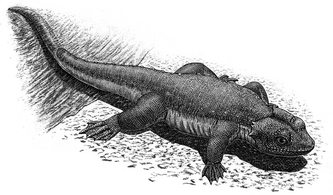 Life reconstruction of the Japanese Monjurosuchus.